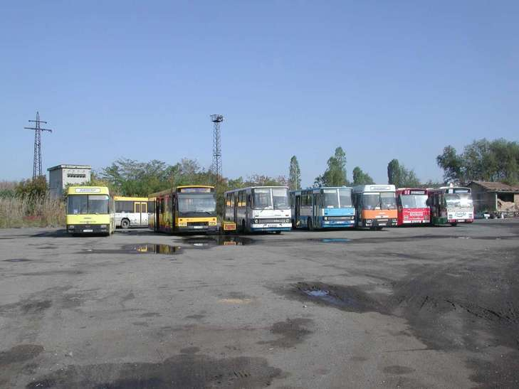 View of the garage of Burgasbus (Бургасбуc ЕООД), Burgas, Bulgaria.